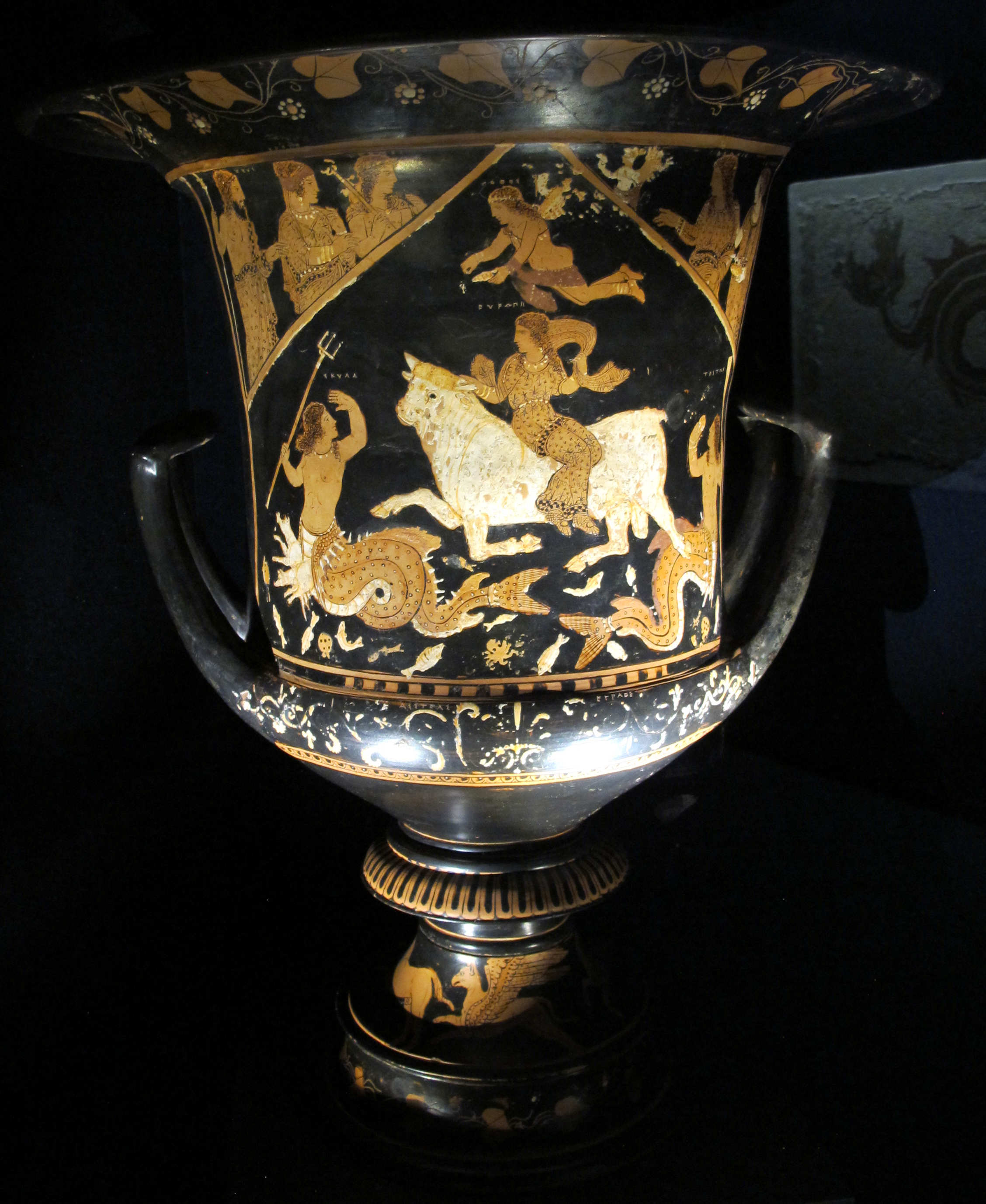 Monsters Exhibition (Palazzo Massimo, Rome, 2014)